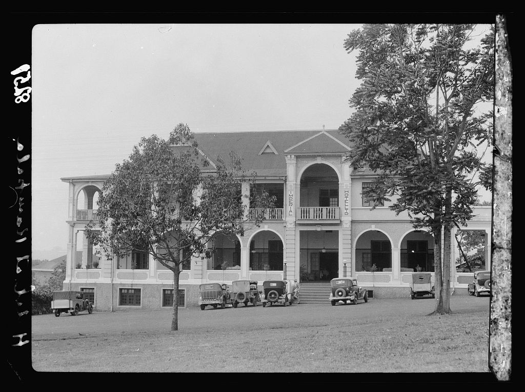 Title: Uganda. Kampala. Imperial Hotel Abstract/medium: G. Eric and Edith Matson Photograph Collection Physical description: 1 negative